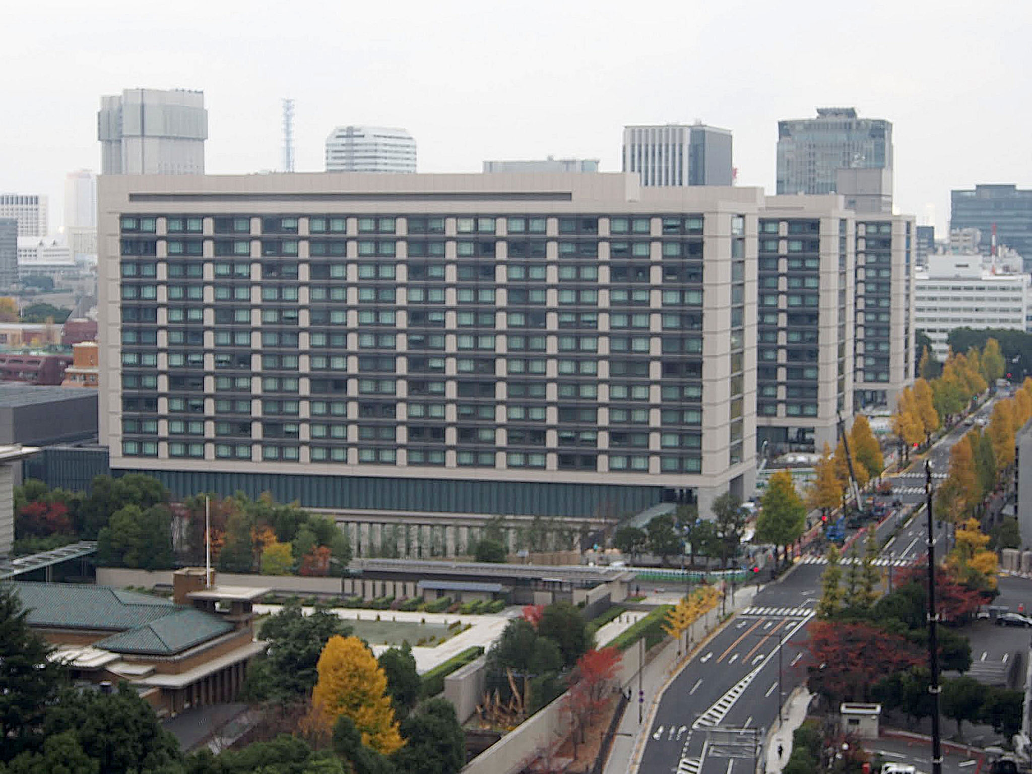 Diet Members' Office Buildings, Tokyo, Japan